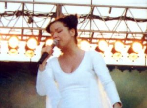 Björk in Ruisrock 1998.